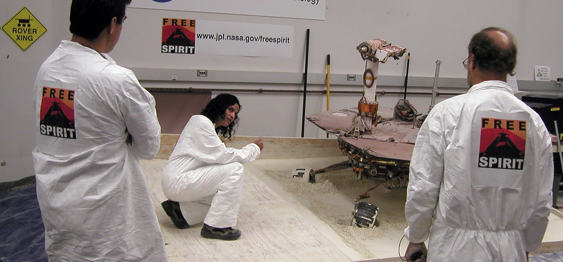 Mars Exploration Rover team members on July 21, 2009, tested how altering the order in which individual wheels turn for steering affects how those turns dig the wheels deeper into soft soil. From left: Alfonso Herrera, Vandana Verma, Bruce Banerdt. This work was part of a series of tests at NASA's Jet Propulsion Laboratory, Pasadena, Calif., designed to determine the best way to get Spirit out of a Martian patch of soft soil called "Troy", where Spirit's wheels have dug in. The test setup simulates the situation at Troy.